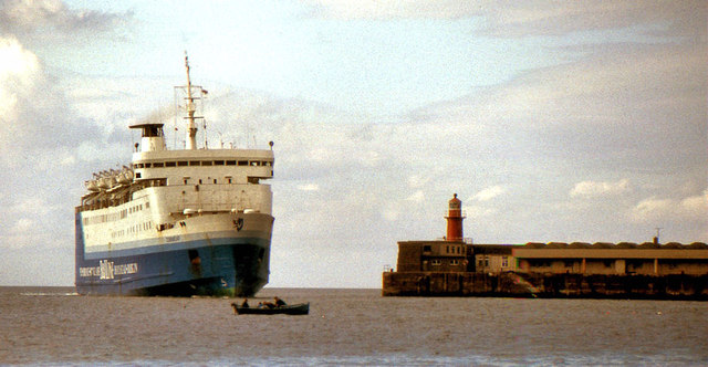 The "Connacht" at Rosslare